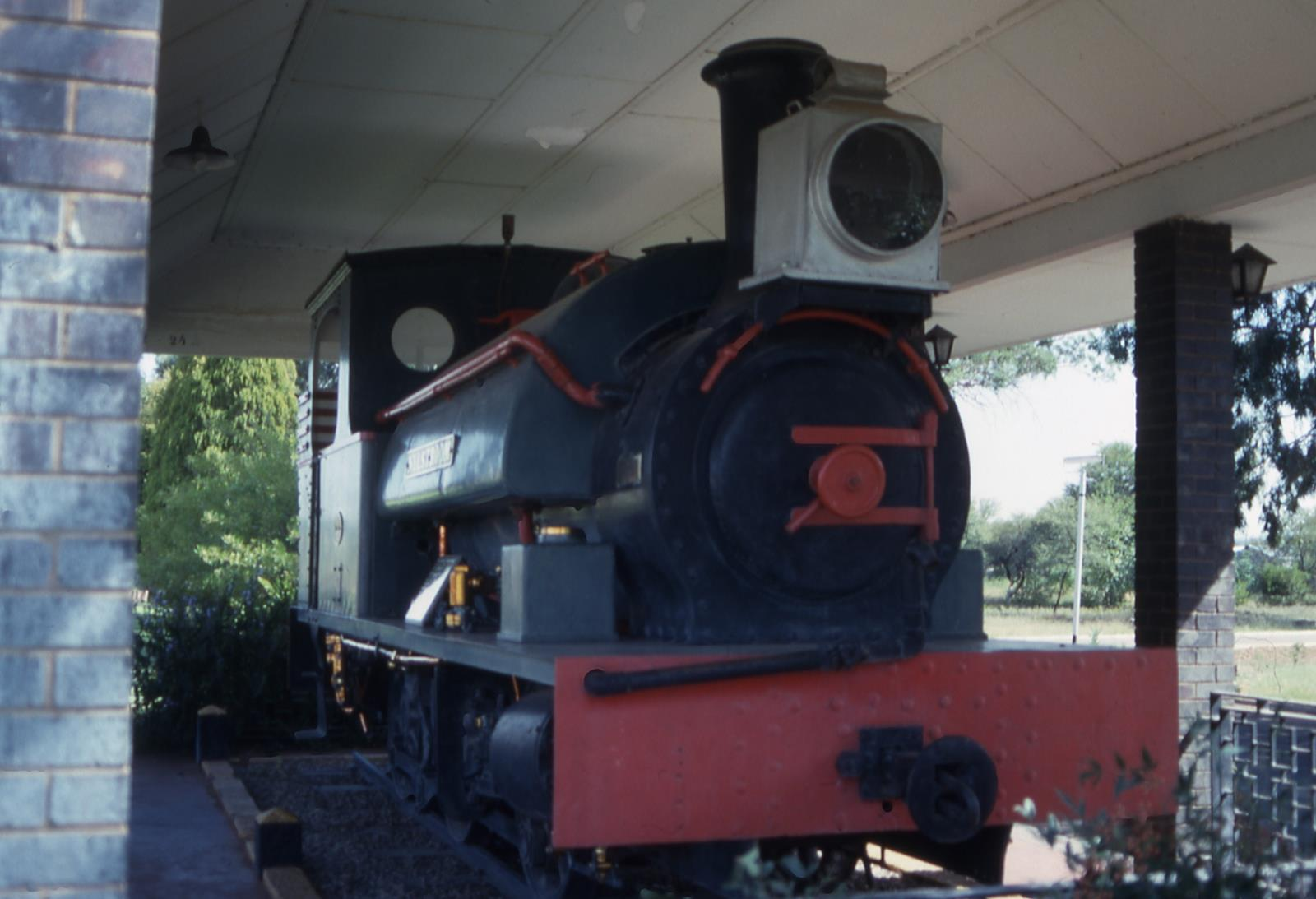 Pretoria-Pietersburg Railway 26 Tonner "Nylstroom" (0-6-0ST) plinthed at Nylstroom station